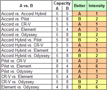 Part of a series of images to illustrate an article on the Analytic Hierarchy Process